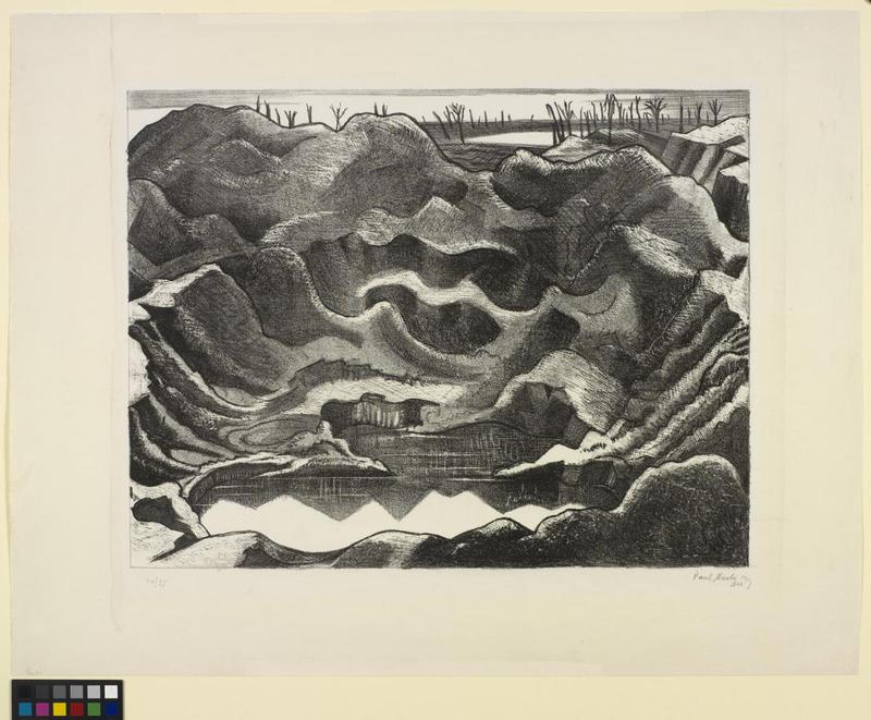 A Mine Crater, Hill 60 image: a view of an enormous water-filled mine crater. The walls of the crater are uneven and terraced. Bomb damaged tree stumps are visible on the horizon.